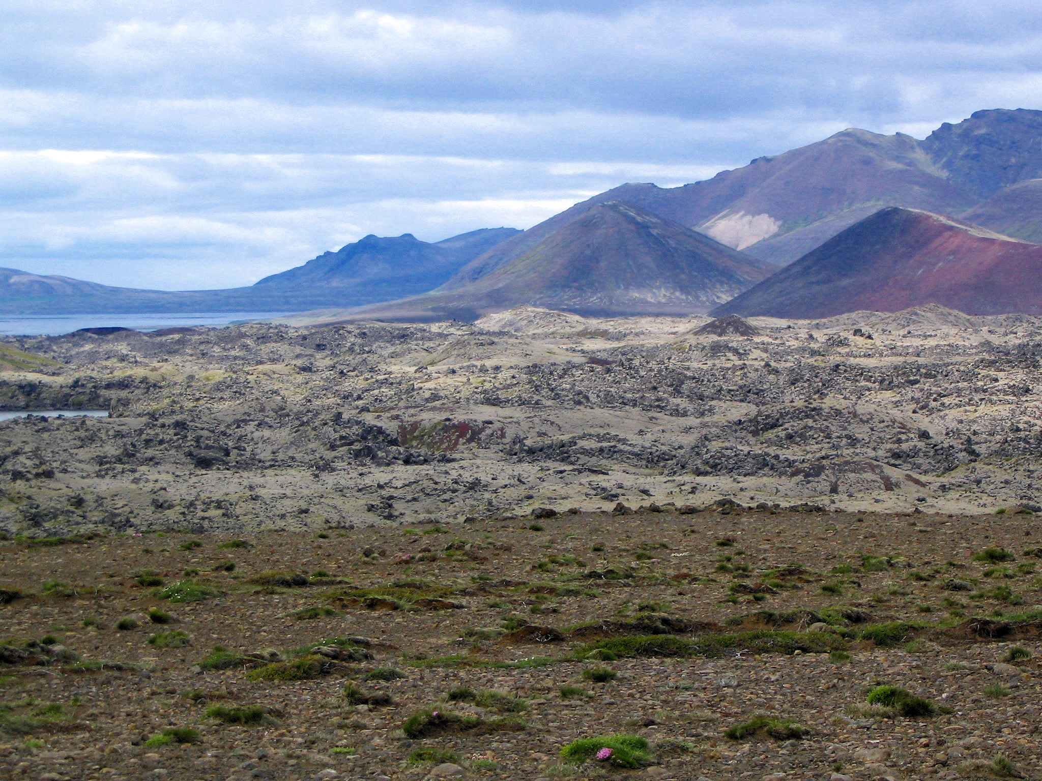 Snæfellsnes peninsula